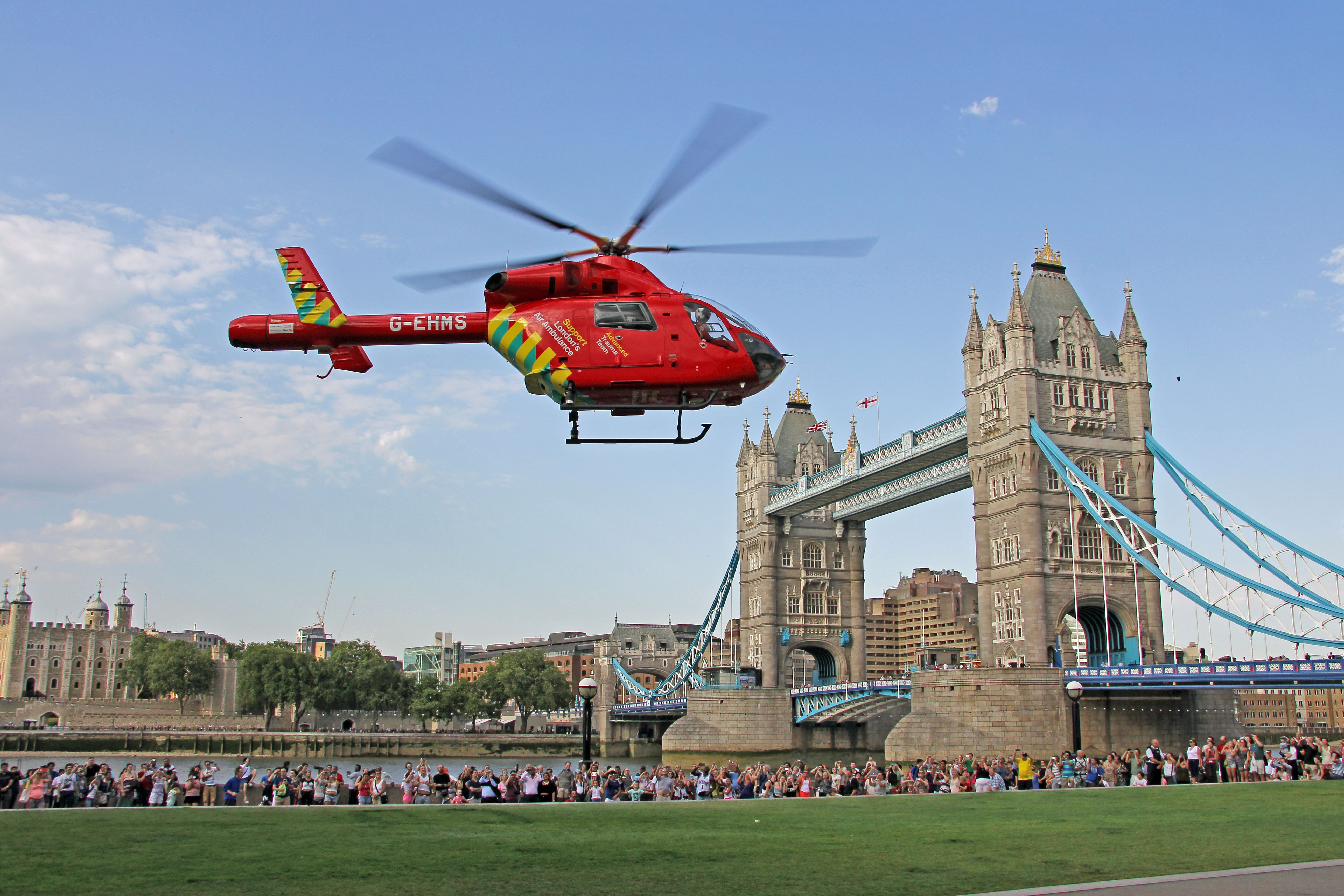 A London's Air Ambulance helicopter flies near the Tower Bridge